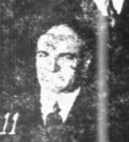 Portrait of New York assemblyman William Karlin